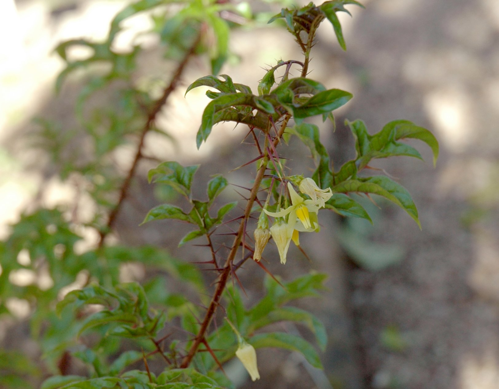 Flowers of Solanum atropurpureum (Solanaceae) at Jena Botanical Garden, Germany